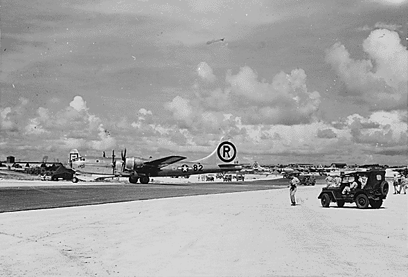 Enola Gay after strike at Hiroshima, entering hard-stand.